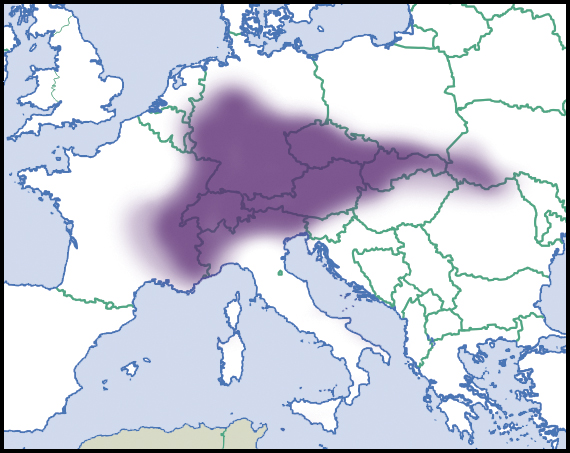 Aegopinella nitens (Michaud, 1831). Distributional range in Europe, scientific state of knowledge of 2012. Source description in English. Light colour indicated rare occurrences or regions where the species could eventually be expected to occur. Dark colour indicated relatively reliable occurrences, as well as regions where the species was expected to occur, and where the species was not known to be extremely rare. Dark colour indications were not necessarily based on published records Species summary in AnimalBase